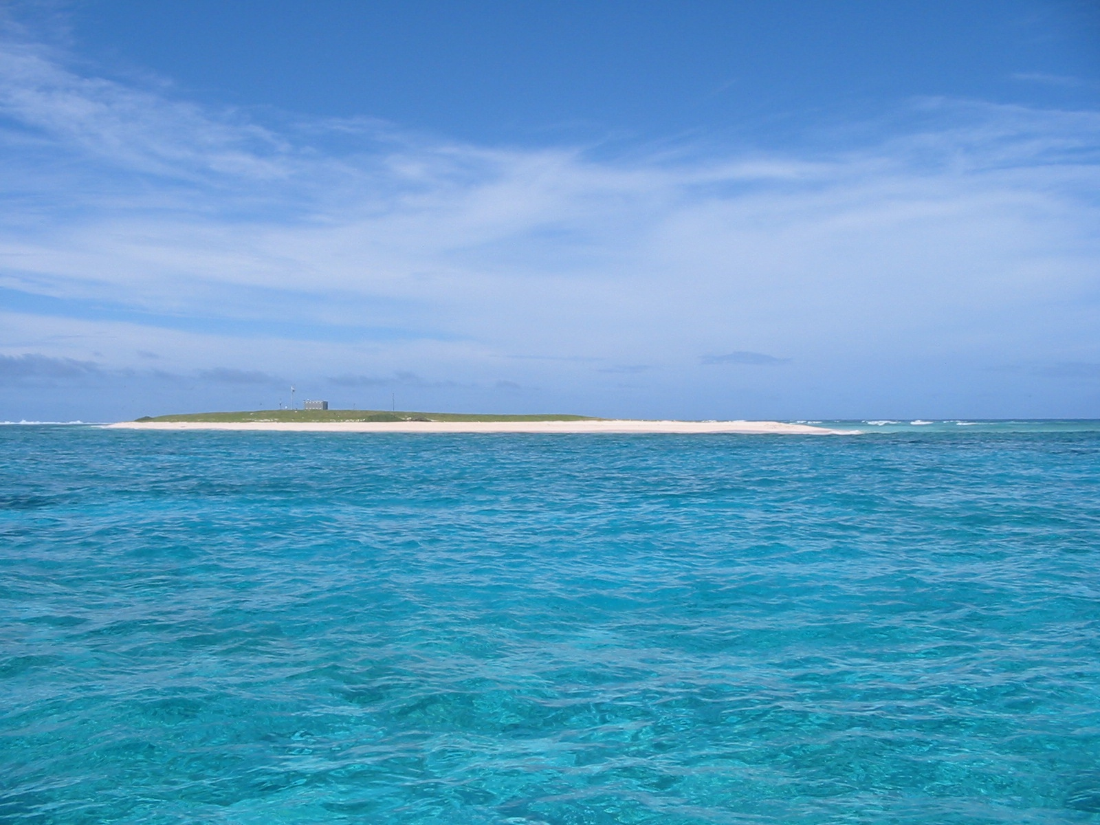 Approaching Cato Island, one of the largest islands of Australia's Coral Sea Islands.